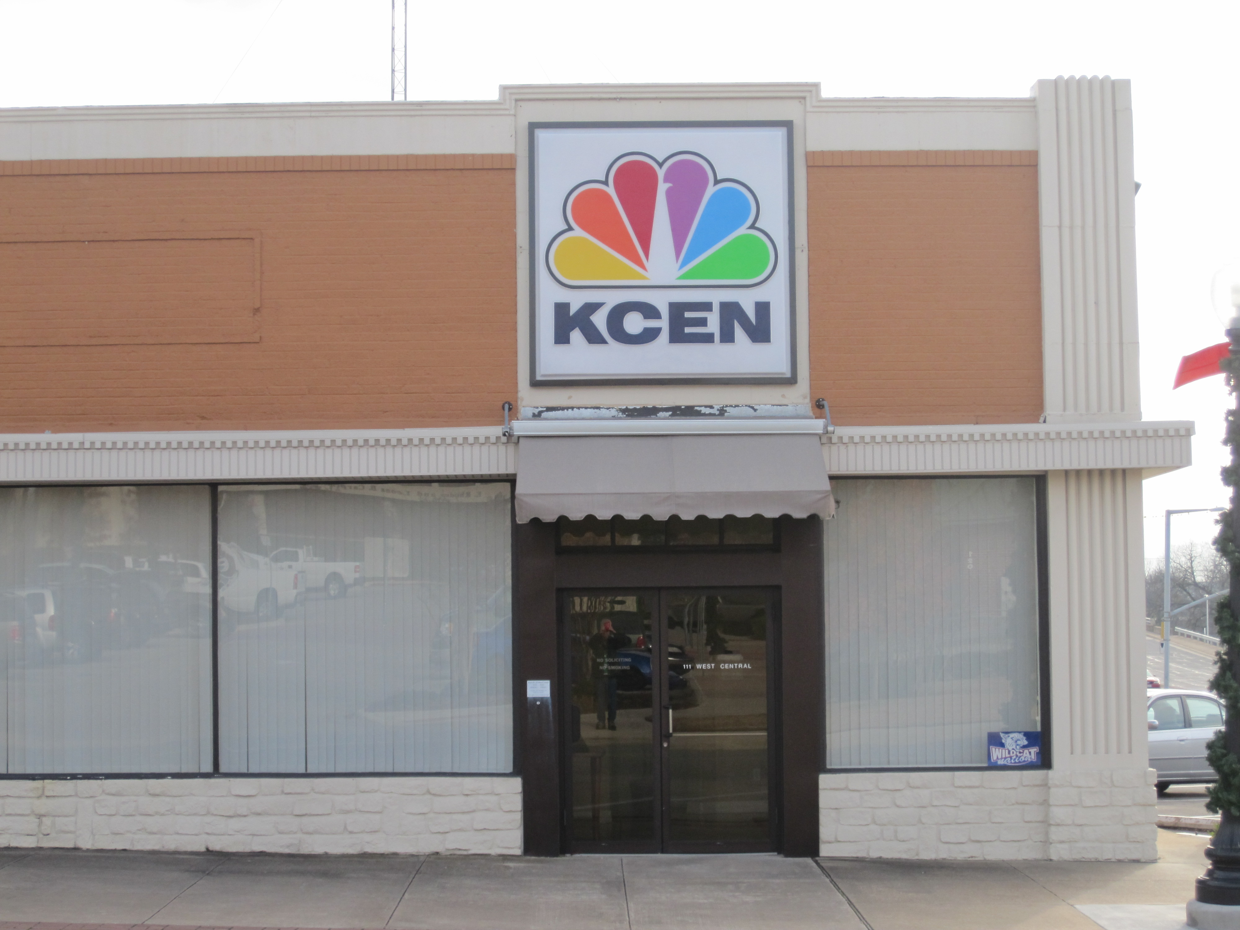 KCEN, NBC station in Temple, TX